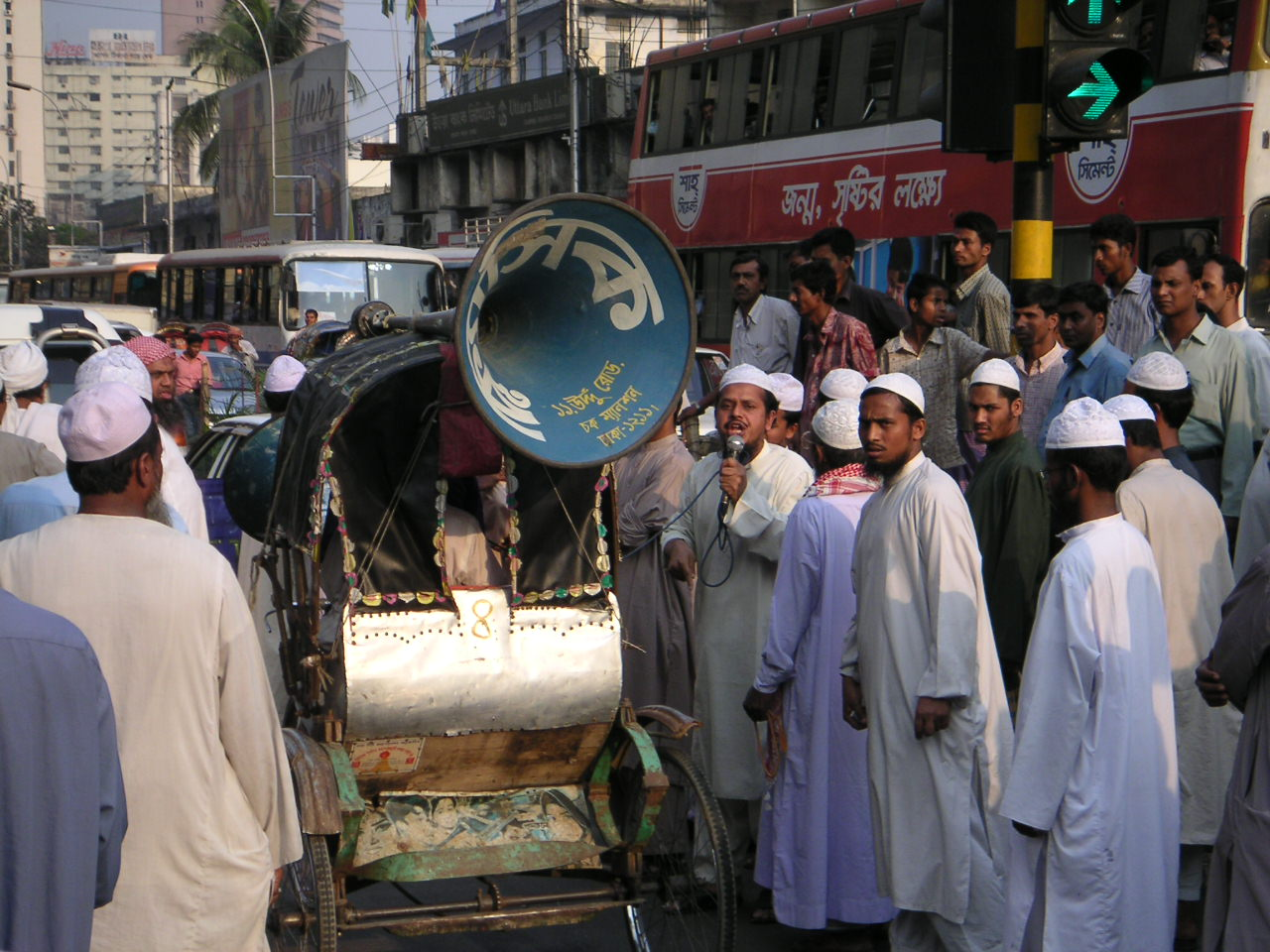 Rally of Madrasa students in Dhaka. Photo: Soman